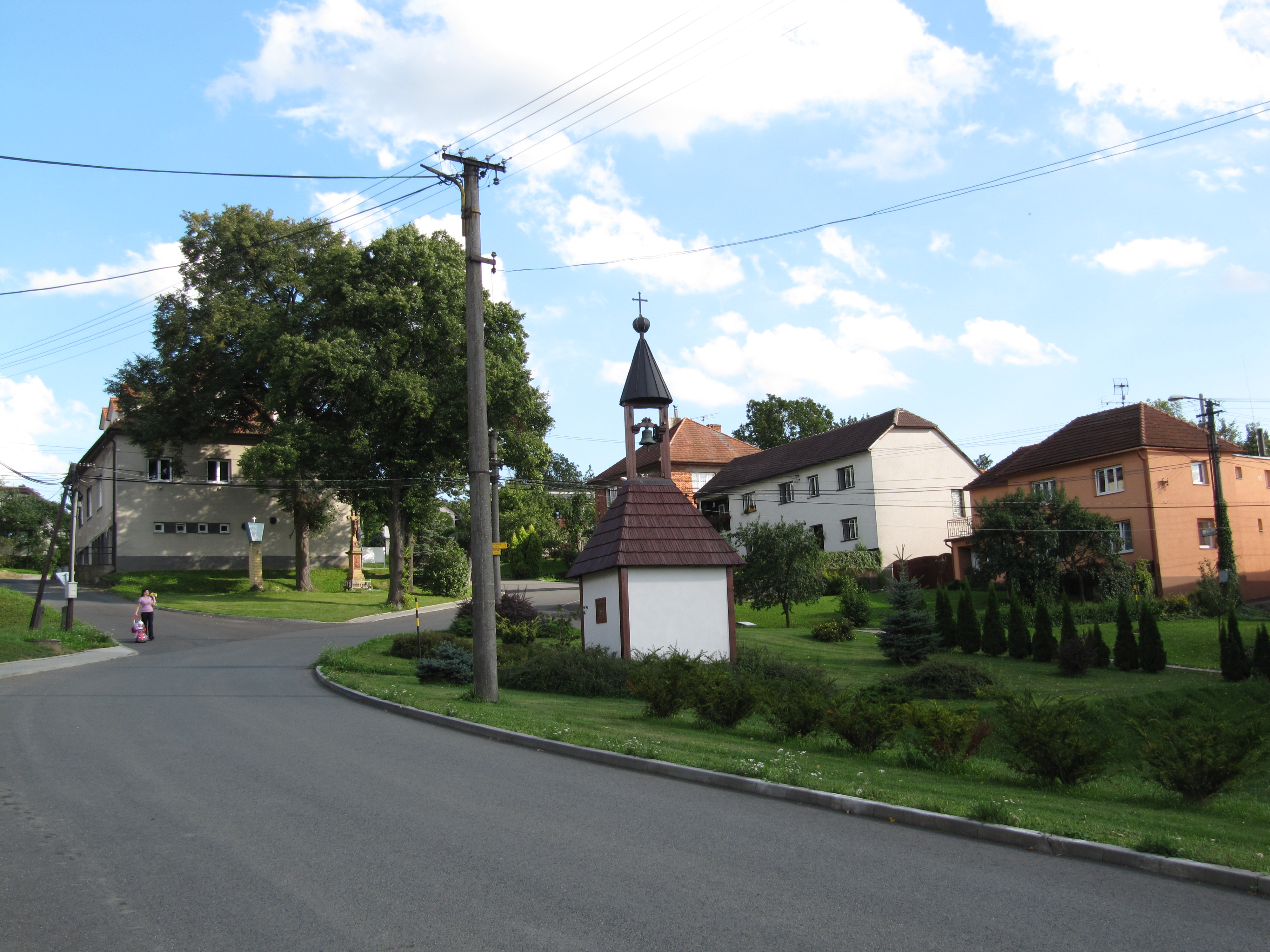 Svárov in Uherské Hradiště District, Czech Republic. Center and belfry.